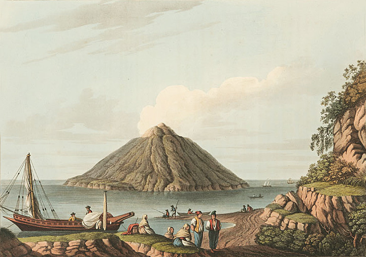 Island of Stromboli (1810). Views in the Ottoman Dominions, in Europe, in Asia, and some of the Mediterranean islands, from the original drawings taken for Sir Robert Ainslie, by Luigi Mayer.